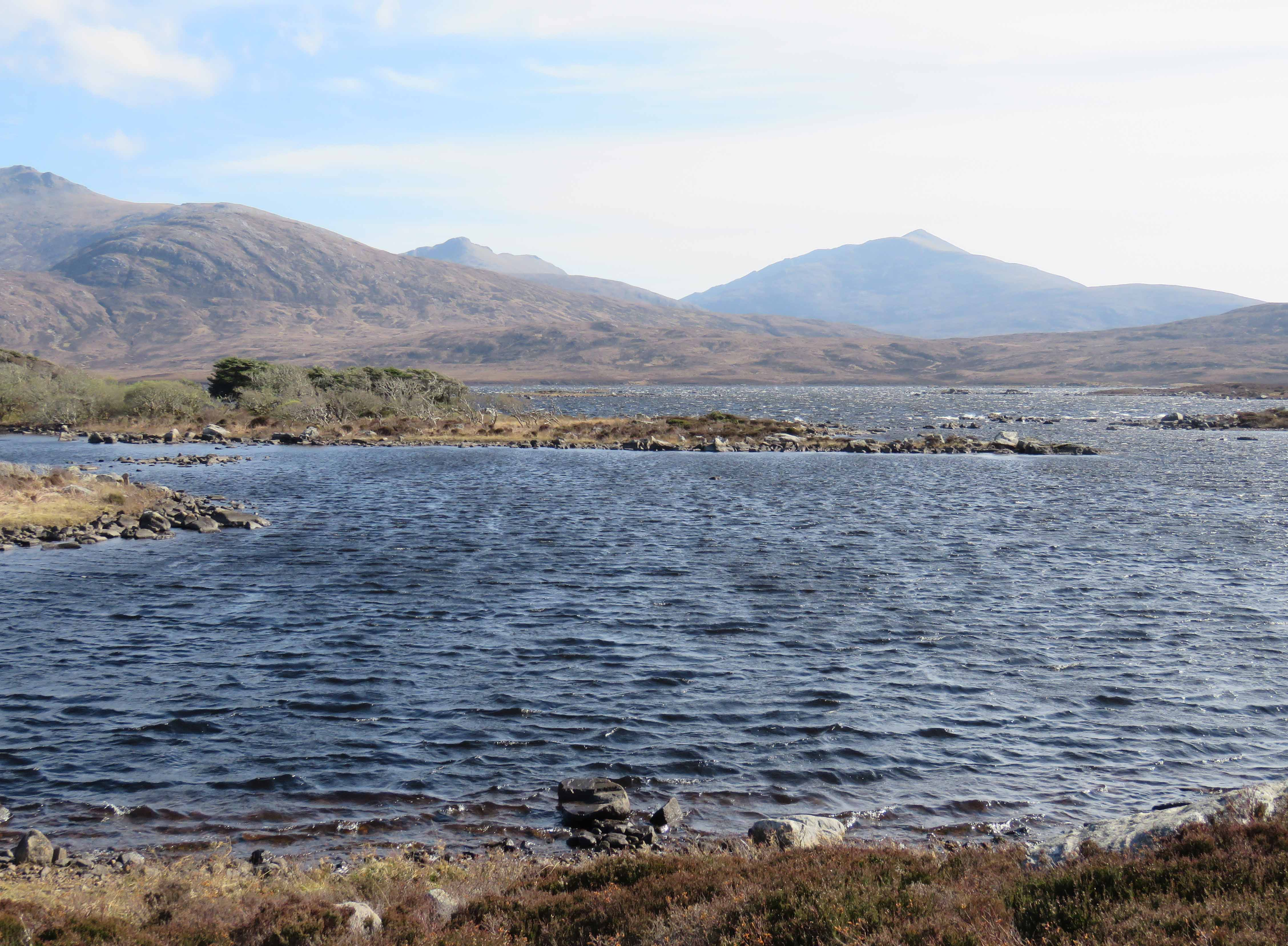 loch druidibeag, South Uist, Outer Hebrides, Scotland